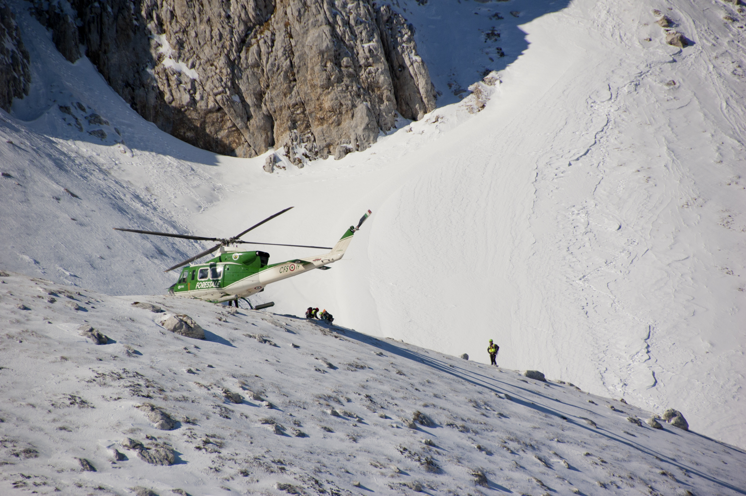 Bell 412 helicopter of italian State Forestry Corps in a mountain rescue operation with italian Corpo Nazionale di Soccorso Alpino e Speleologico at Monte Terminillo (Rieti municipality, Lazio, Italy)